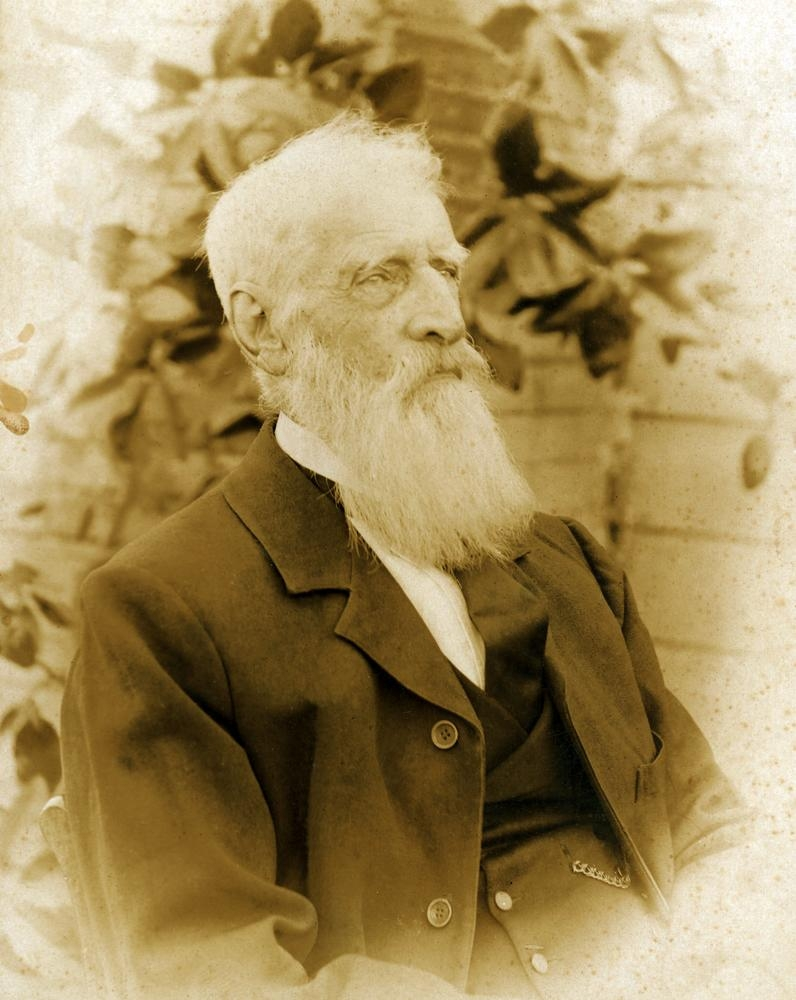 Portrait of Stephen Lawn 1836=1917 farmer blacksmith and wheelwright of the North Pine area, the father of Lawnton